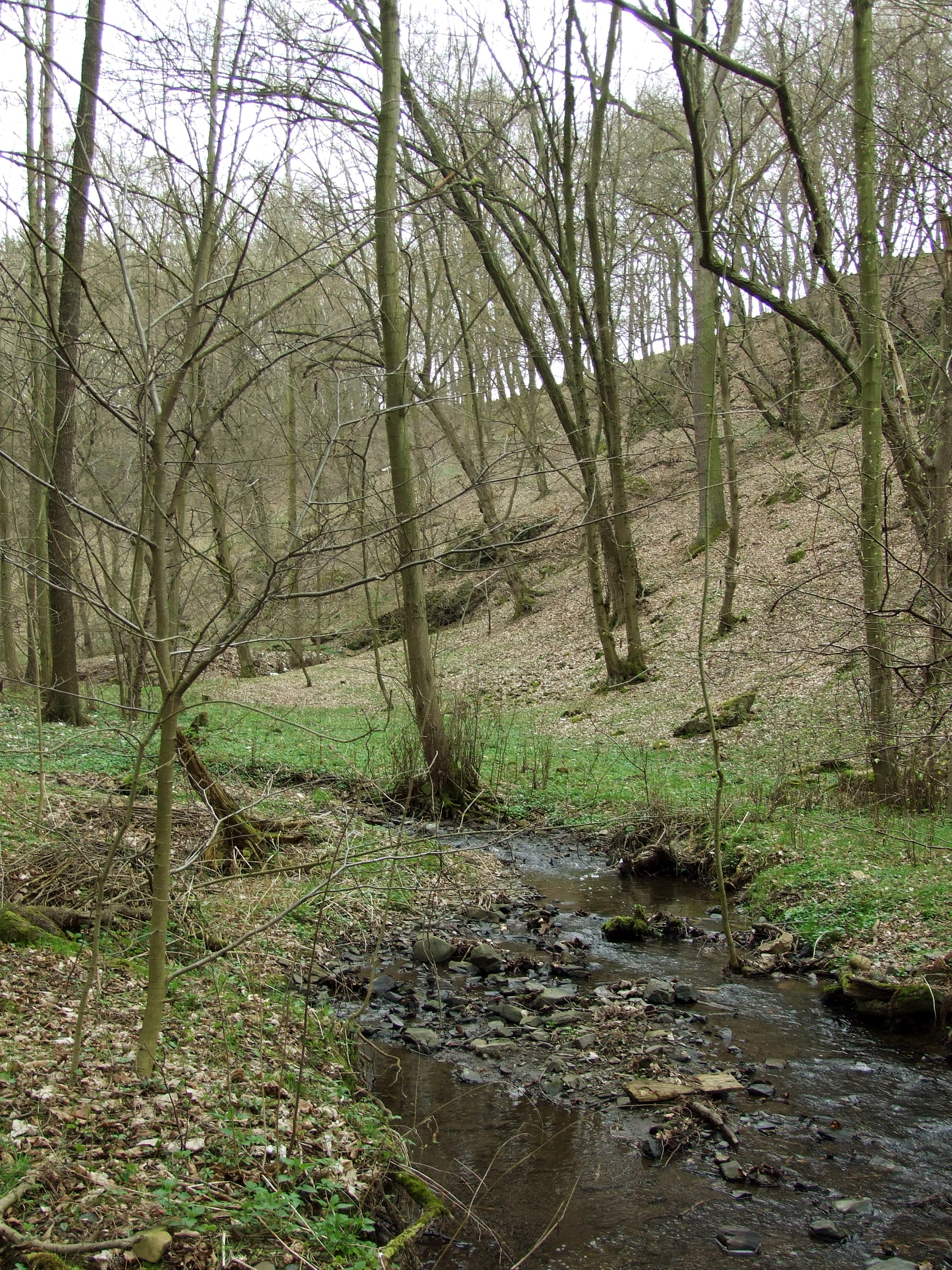 Všenory Creek near Dobřichovice, Central Bohemian region, CZ